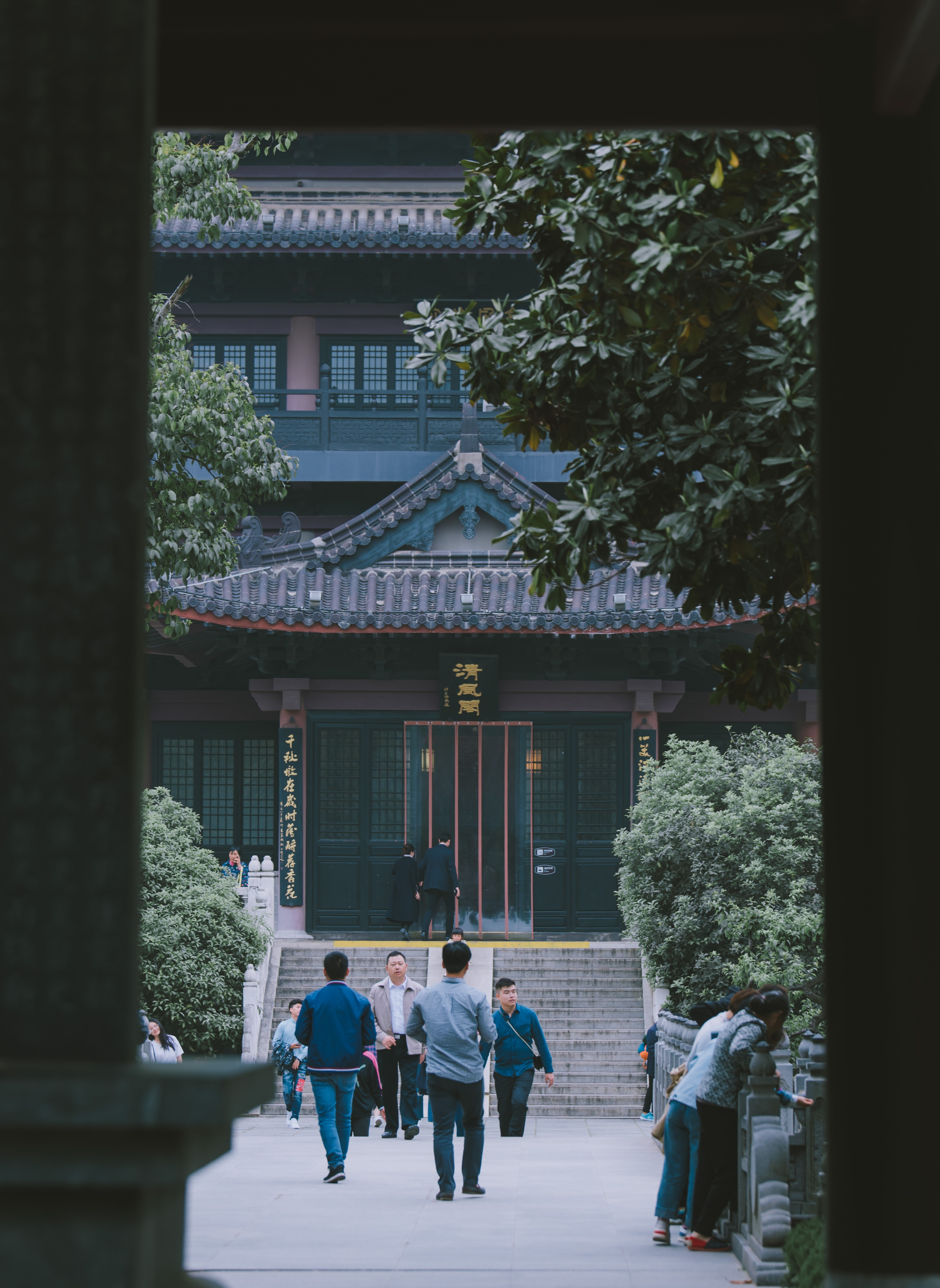 bao gong park